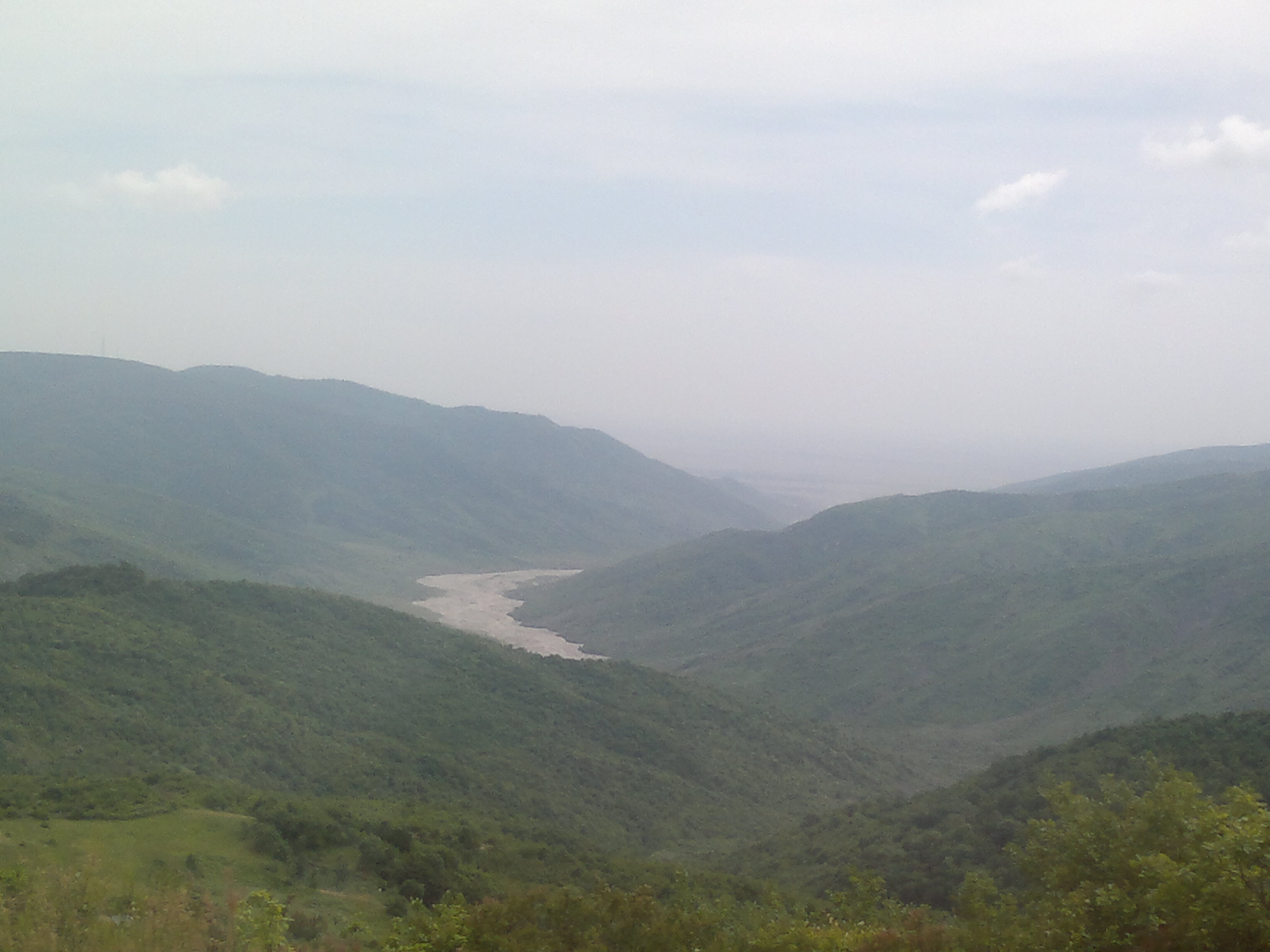 Landscape of Aghsu, Azerbaijan.